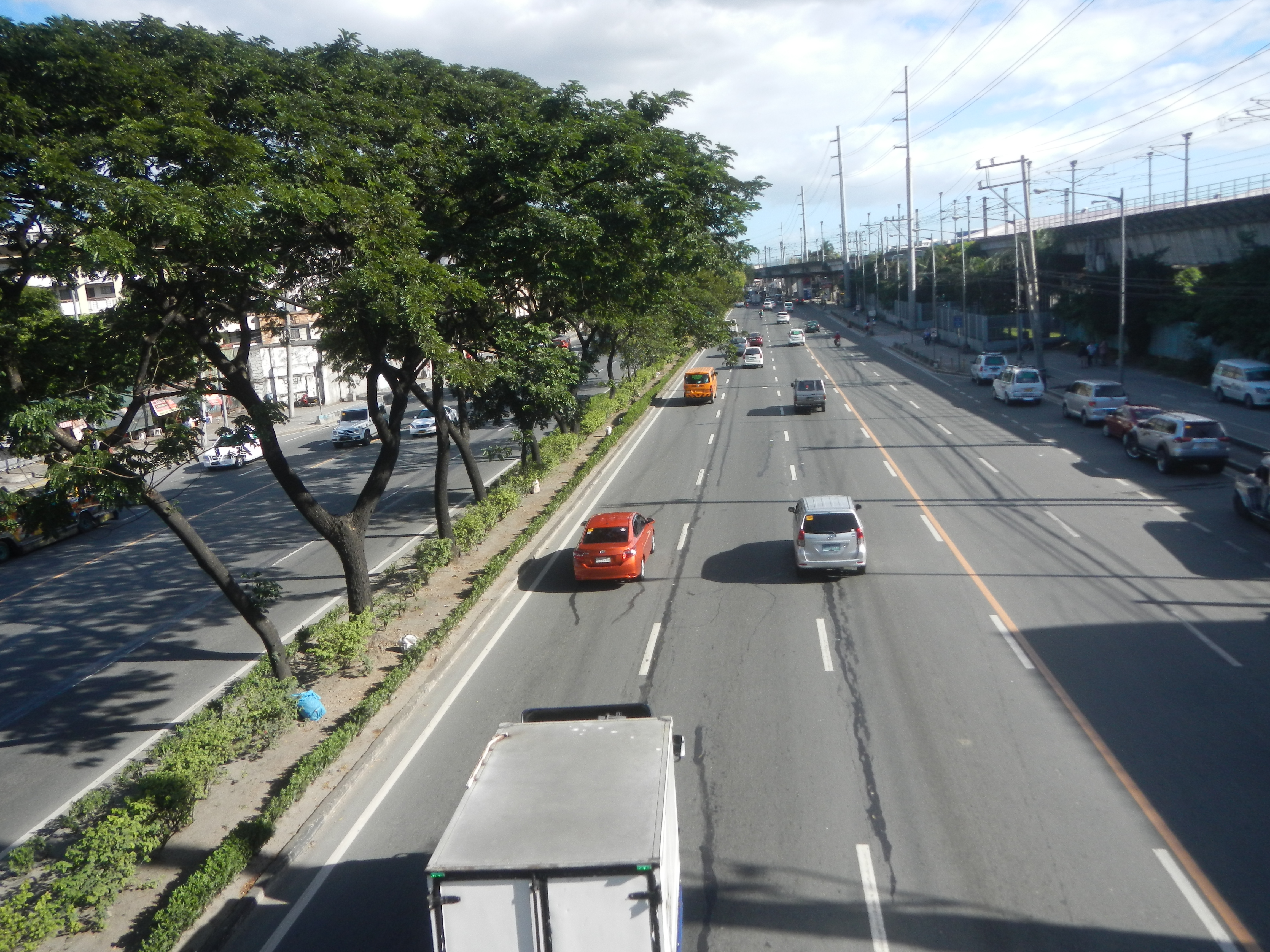 List of landmarks and attractions of Marikina Tayug Footbridge 14°37'25"N 21°5'5"E interconnecting with the SM City Marikina Footbridge 14°37'28"N 121°5'3"E and the Santolan Station Footbridge 14°37'19"N 121°5'11"E MRT-2 Santolan Station and the Marcos Bridge 14°37'32"N 121°4'58"E along Marcos Highway (Marikina City Section) Marcos Highway 14°36'49"N 121°20'8"E (Marikina City Section) Marikina River Marikina River Park under the Marikina River Park Authority, 1993 system of parks, trails, open spaces and recreation facilities along an 11-kilometre (6.8 mi) stretch of the Marikina River, Carabao statues along SM City Marikina SM City Marikina 14°37'35"N 121°5'3"E Riverbanks Center, Radial Road-6, Flyover, Riverbanks Center 14°37'50"N 121°4'56"E Riverbanks Center and Eastern Metro-Manila Multi Modal Transport Terminal; located in Major Dizon Street and FVR Road at Barangays of Marikina Barangays Industrial Valley Complex 14°37'30"N 121°4'41"E , Orlandes IVC Green Garden, Calumpang, Marikina and Barangka (Marikina), Marikina City bounded by Legislative district of Pasig City List of barangays of Metro Manila, Barangays Santolan 14°36'53"N 121°5'7"E Pasig City; Santolan station Manila Line 2 Strong Republic Transit System SRTS Marikina–Infanta Highway Marcos Highway or MARILAQUE Highway or Manila-Rizal-Laguna-Quezon (Note: Judge Florentino Floro, the owner, to repeat, Donor Florentino Floro of all these photos hereby donate gratuitously, freely and unconditionally all these photos to and for Wikimedia Commons, exclusively, for public use of the public domain, and again without any condition whatsoever).